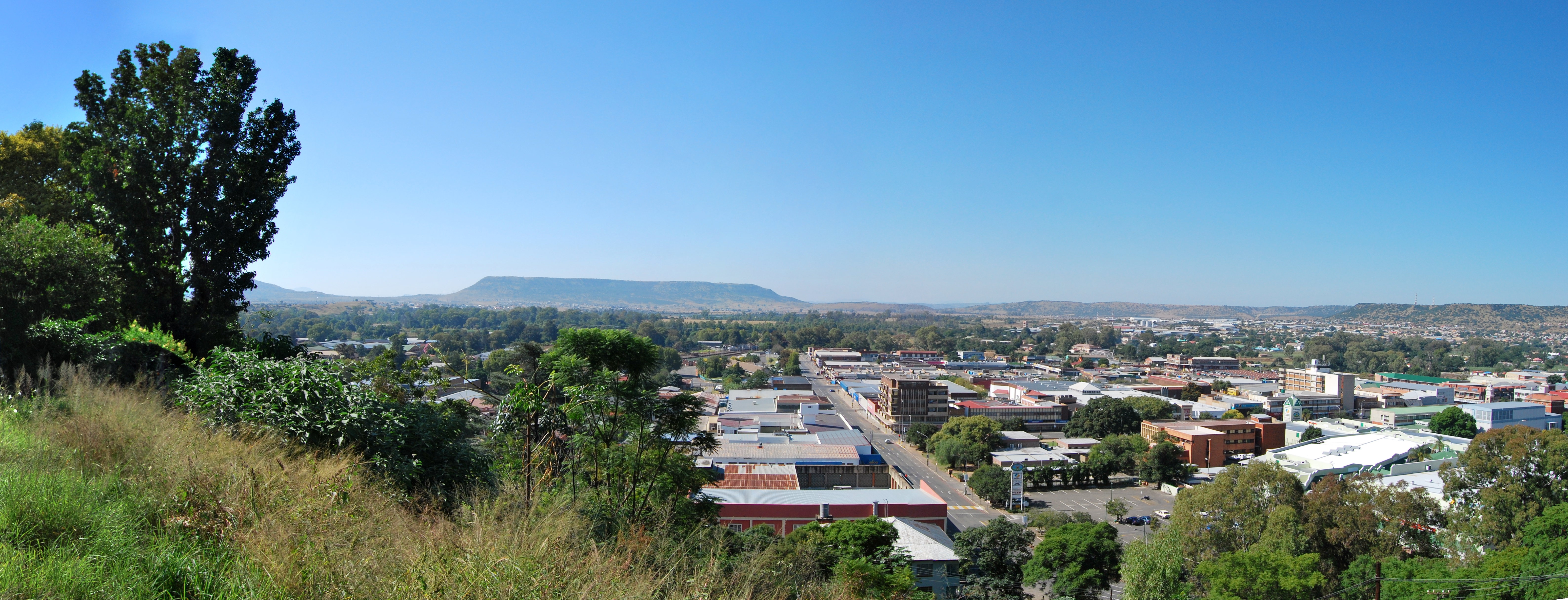 This is a View of Ladysmith KwaZulu-Natal South Africa from a hill above the city.